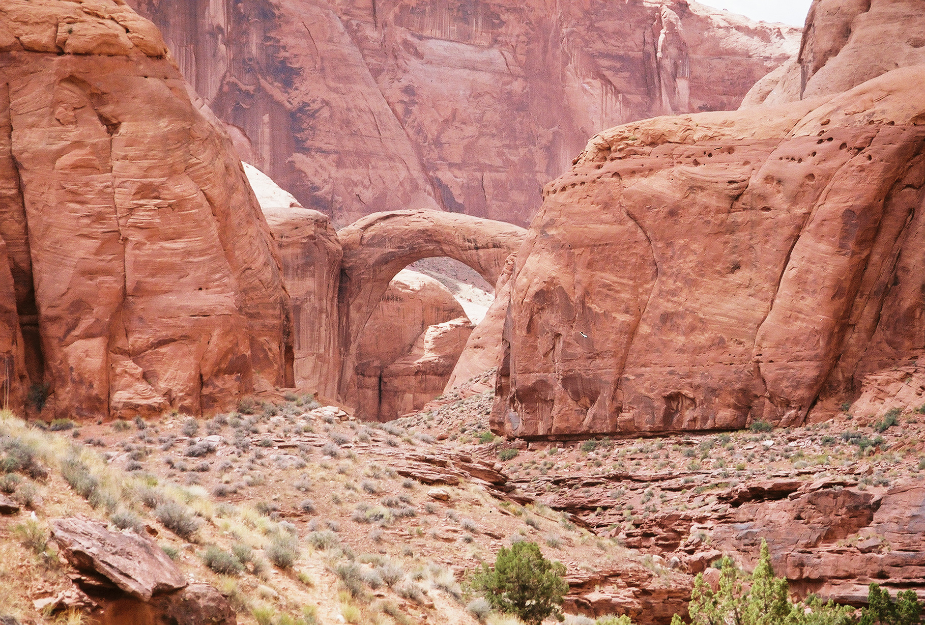 The Rainbow Bridge, located in Utah, described as the world's largest natural bridge.